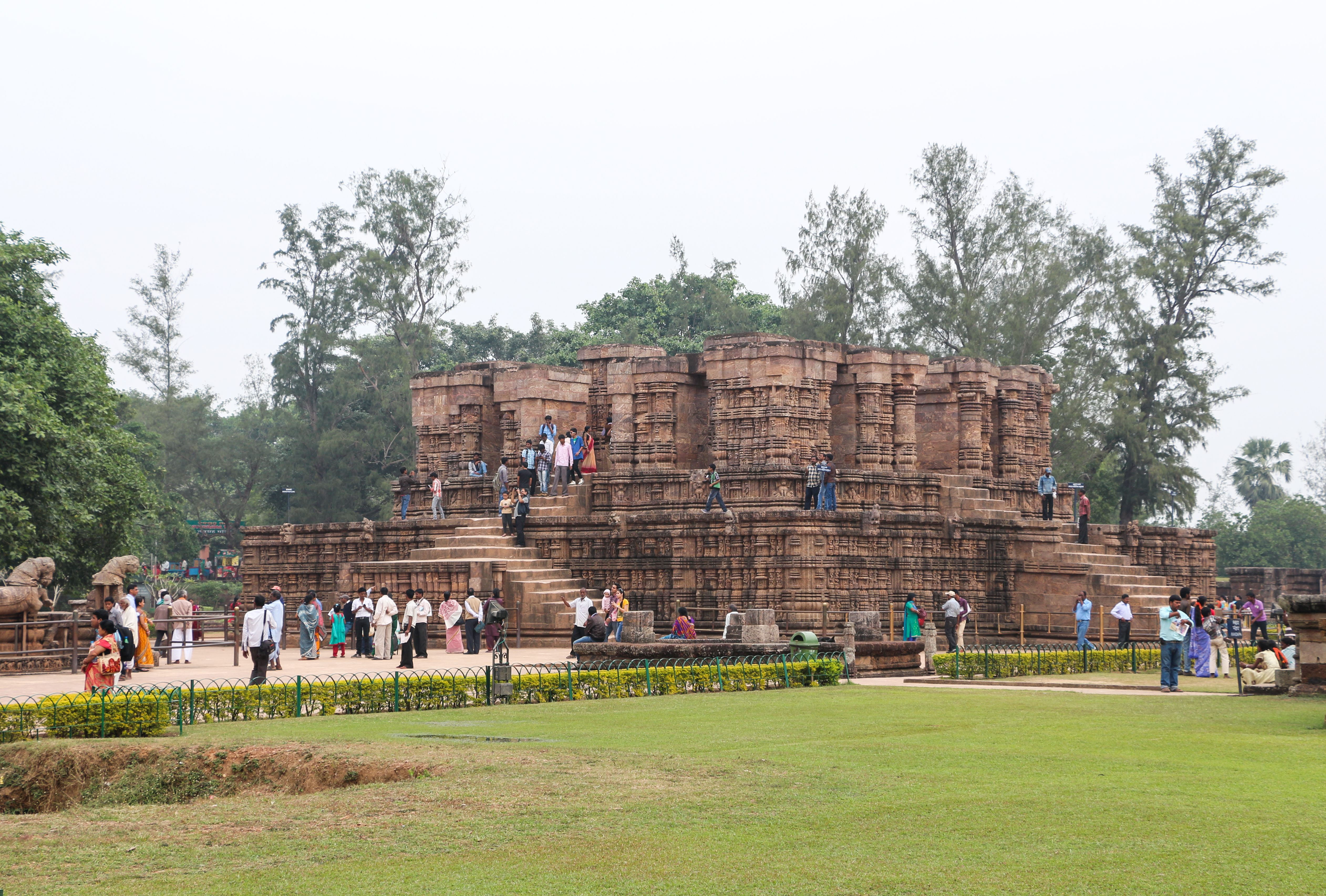 Dance Pavilion (Nata Mandir) in Sun Temple, Konârak, India